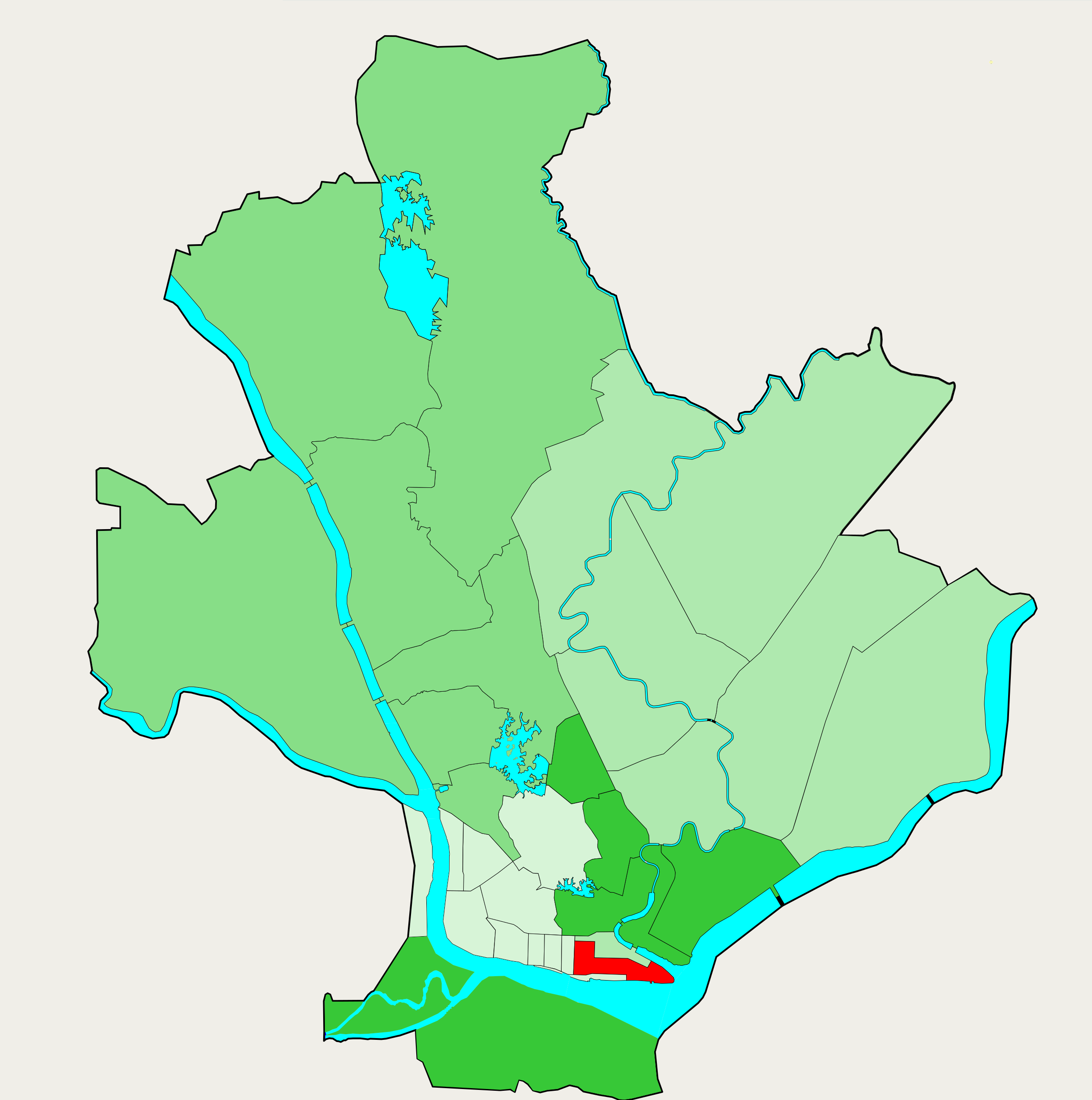 Insein Township of Yangon (marked in red)